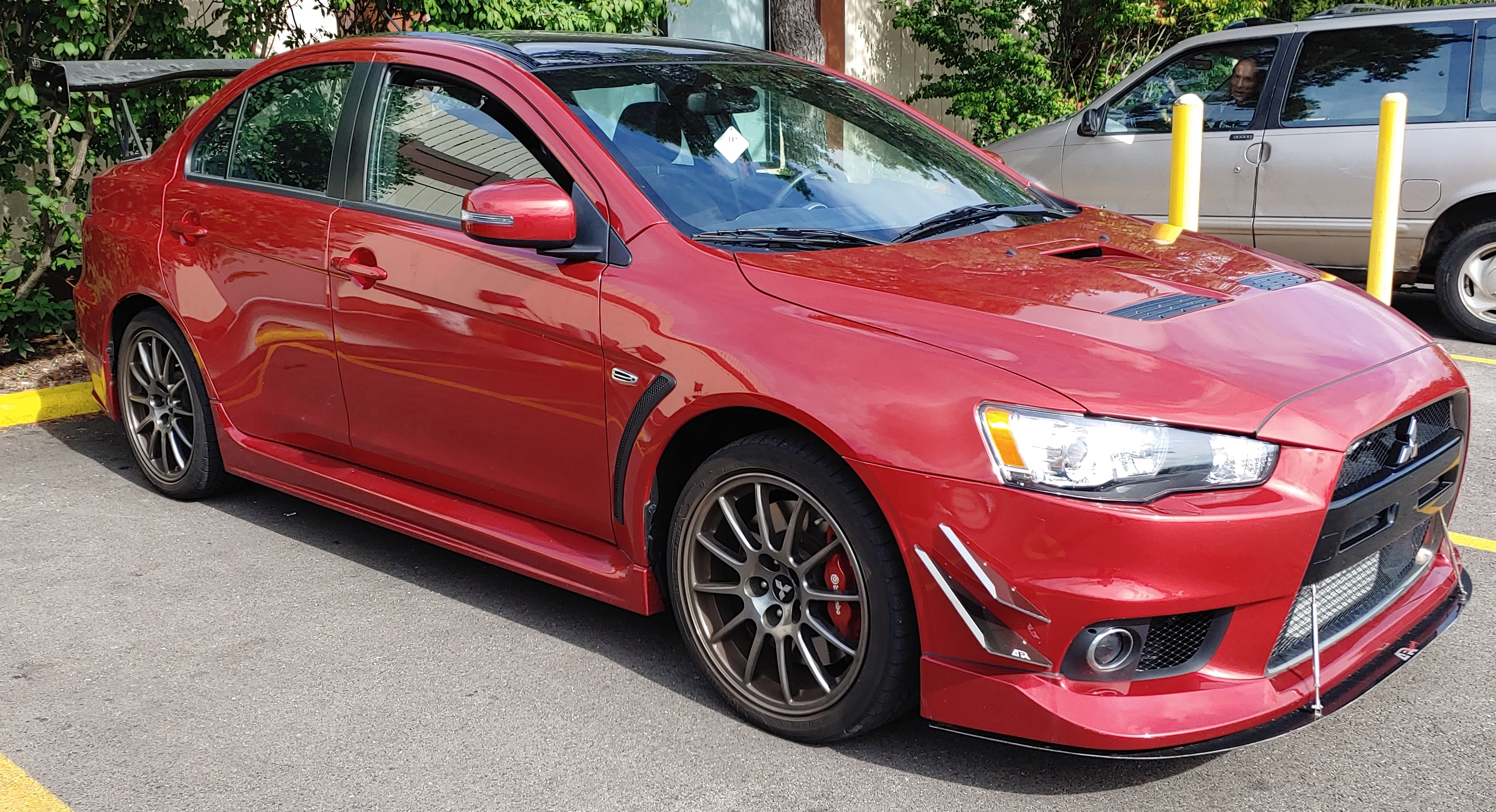 Left view of a Mitsubishi Lancer Evolution X Final Edition, with APR Performance aftermarket parts